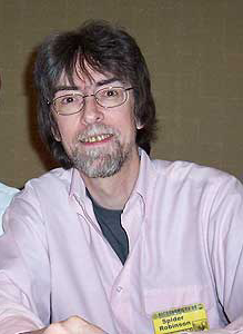 A cropped version of File:Spider_and_Jeanne_Robinson.jpg. Taken at the 2004 Necronomicon.